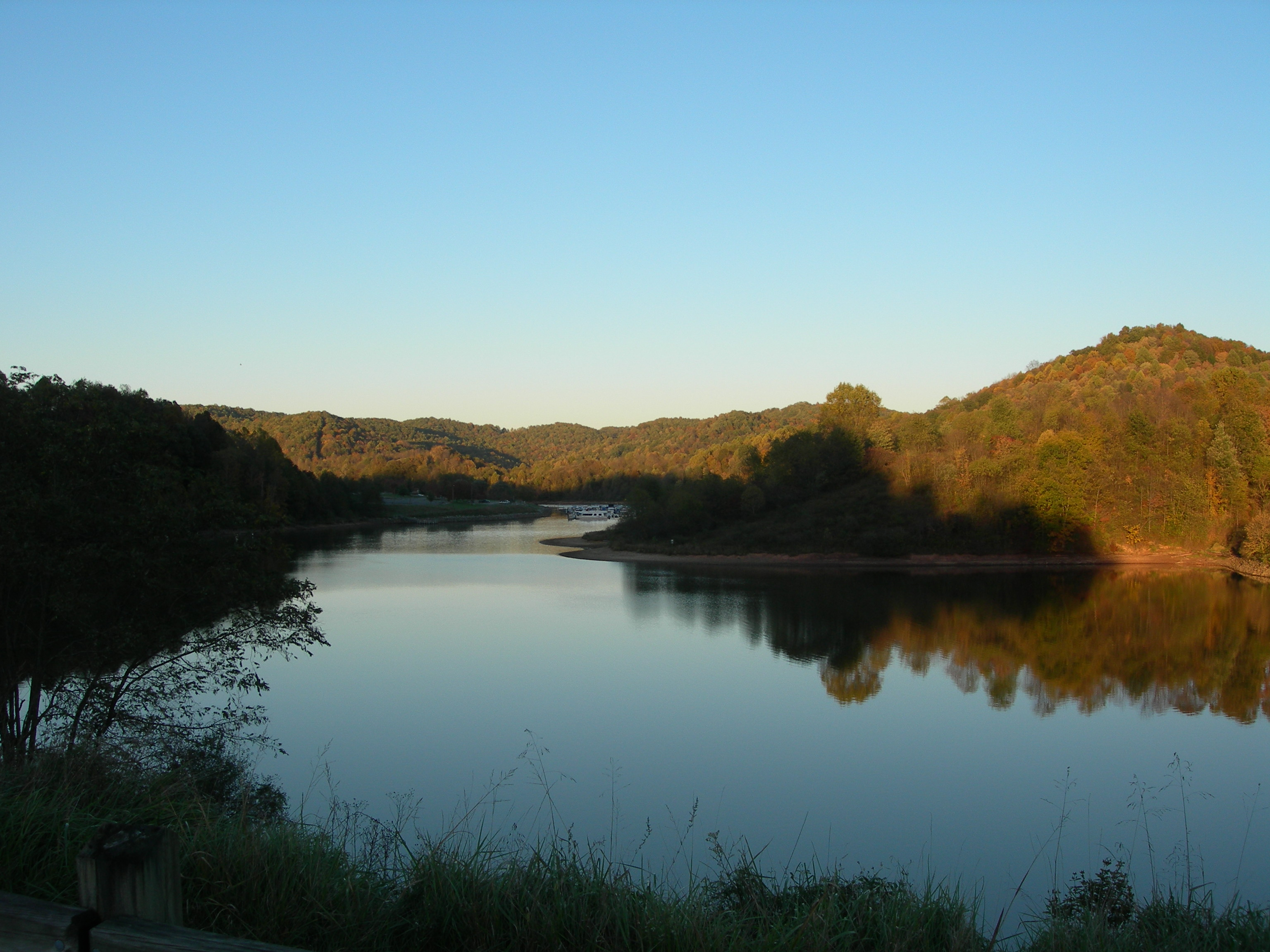 Stonewall Jackson Lake, near Weston, West Virginia,in the fall of 2006, photo recorded by WVhybrid.